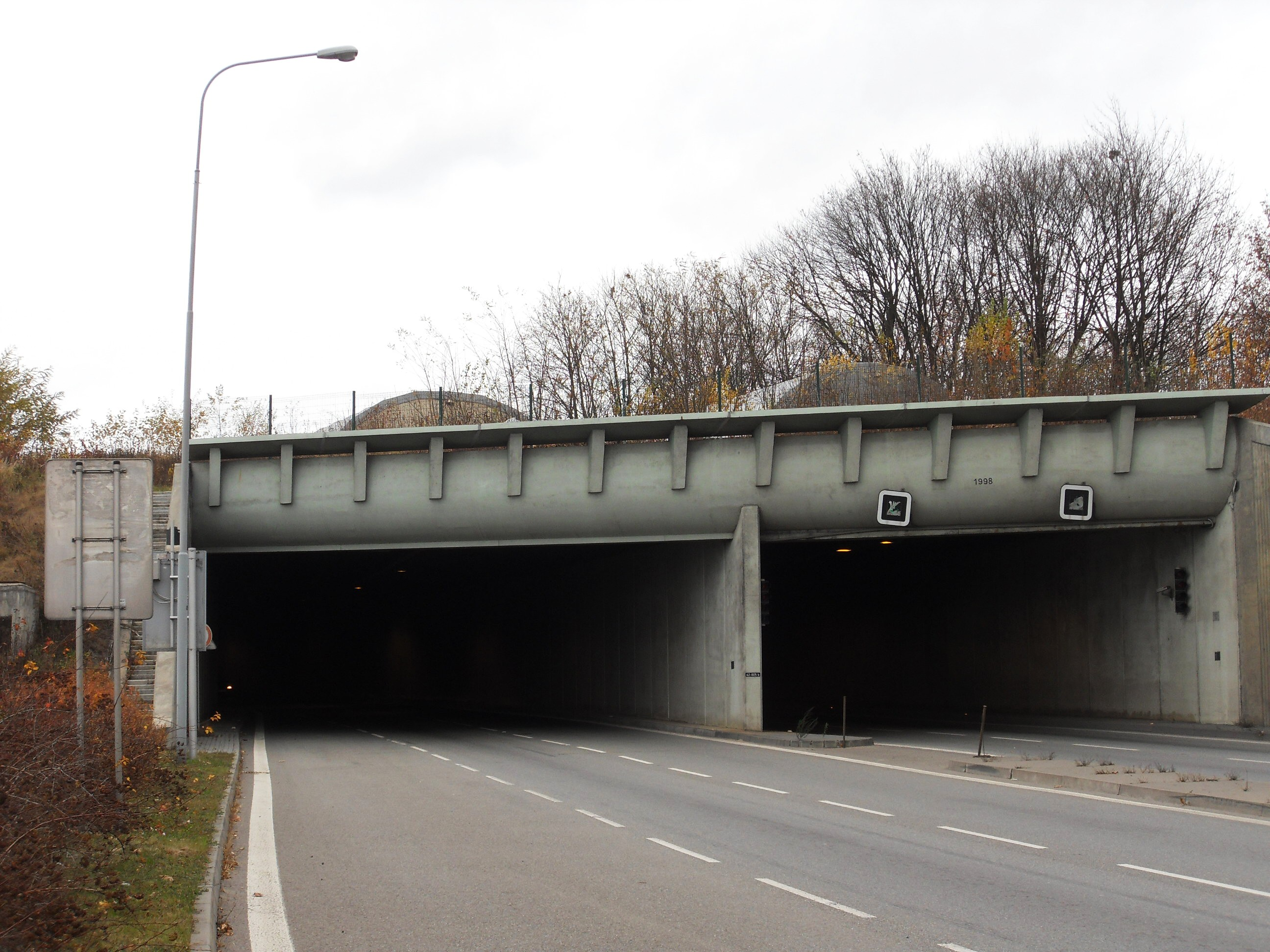 Husovice tunnel, Brno, Czech Republic